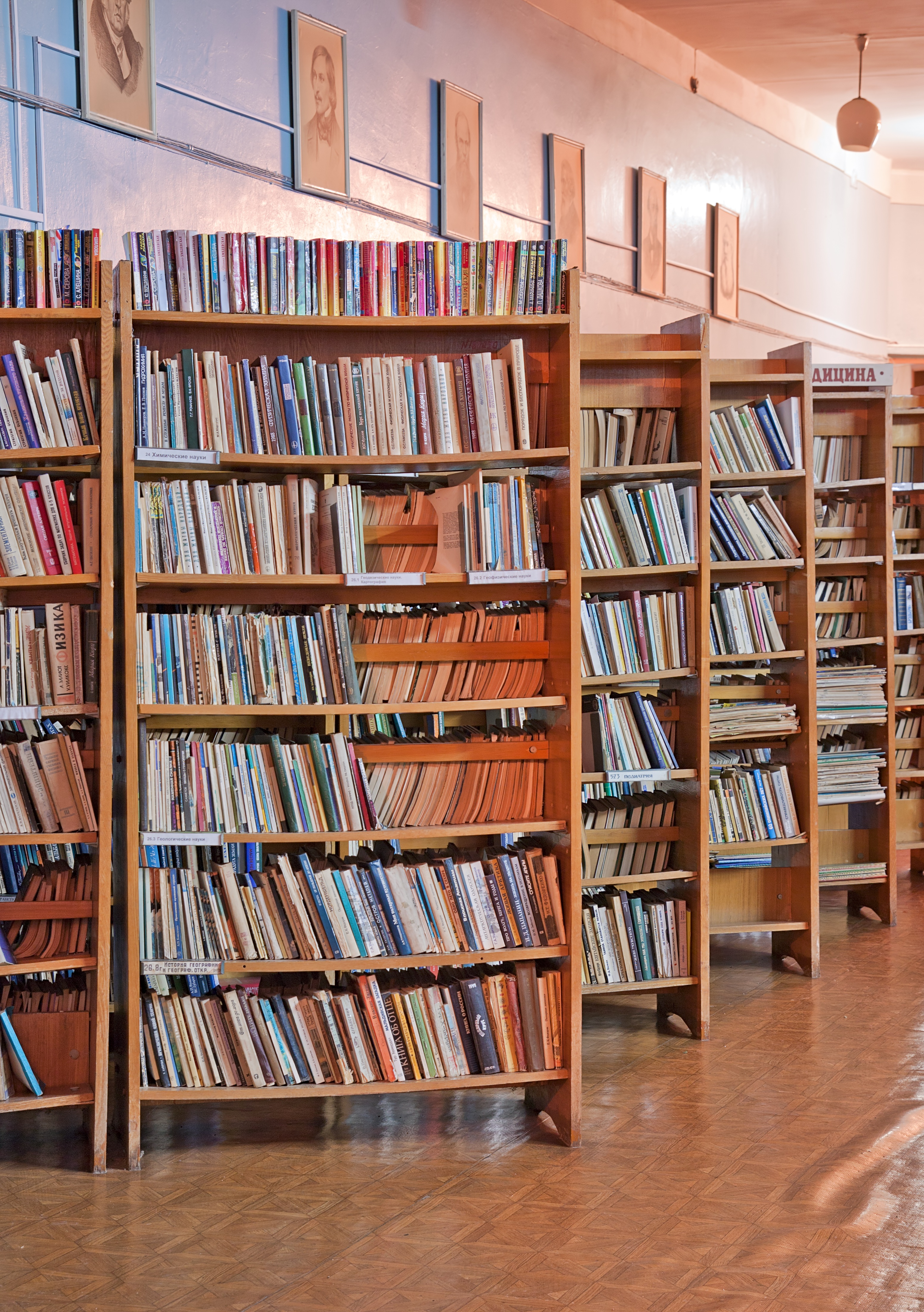 Bookshelves. Central town library named after Arkady Petrovich Malashenko, Pereslavl